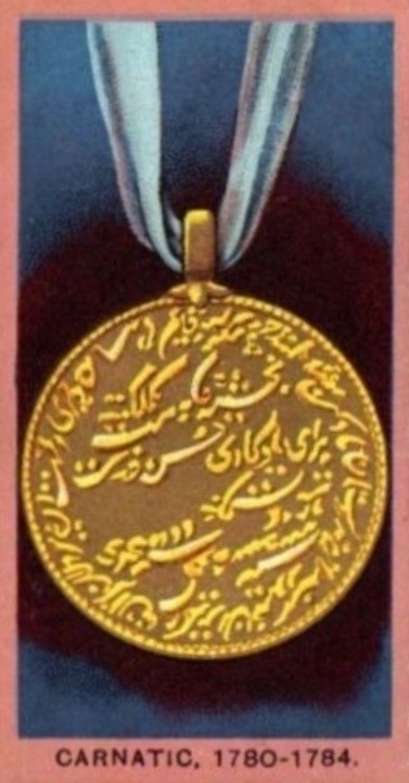 Reverse of medal awarded to Honourable East India Company native soldiers for Deccan campaign of 1780-84, depicted on Wills cigarette card